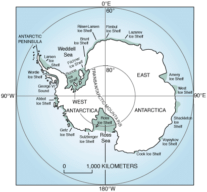 Antarctic principal geographic features, with ice shelves labeled Source:Coastal-Change and Glaciological Maps of Antarctica. USGS Fact Sheet 050-98. Retrieved on February 28.